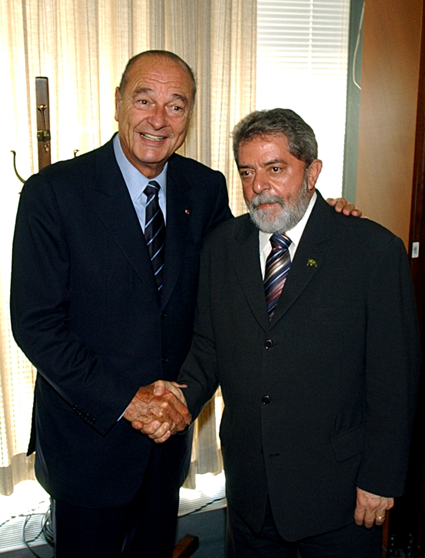 From left to right: French president Jacques Chirac and Brazilian president Lula da Silva at a UN meeting on September 21, 2004